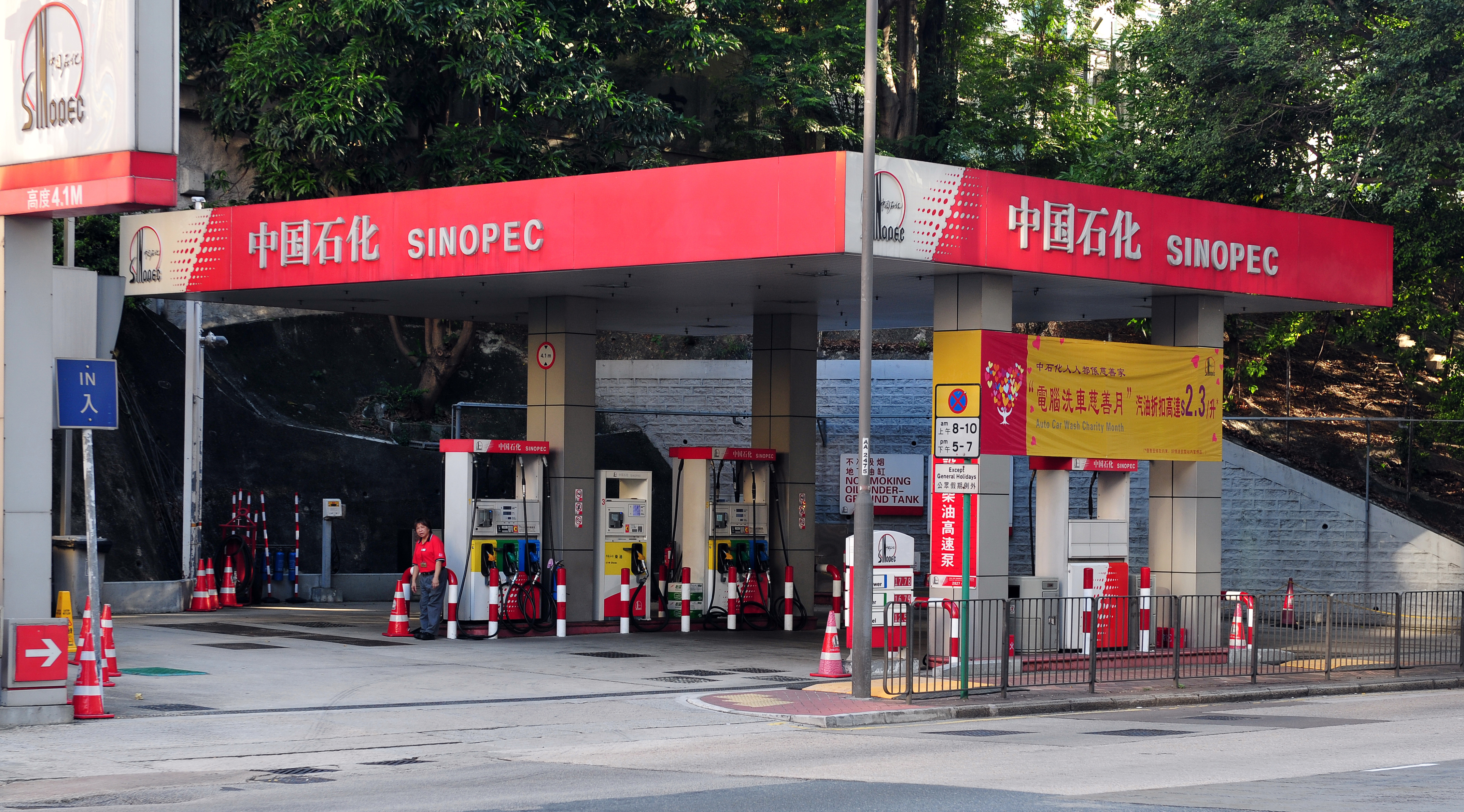 Gas Station Sinopec in Hong Kong